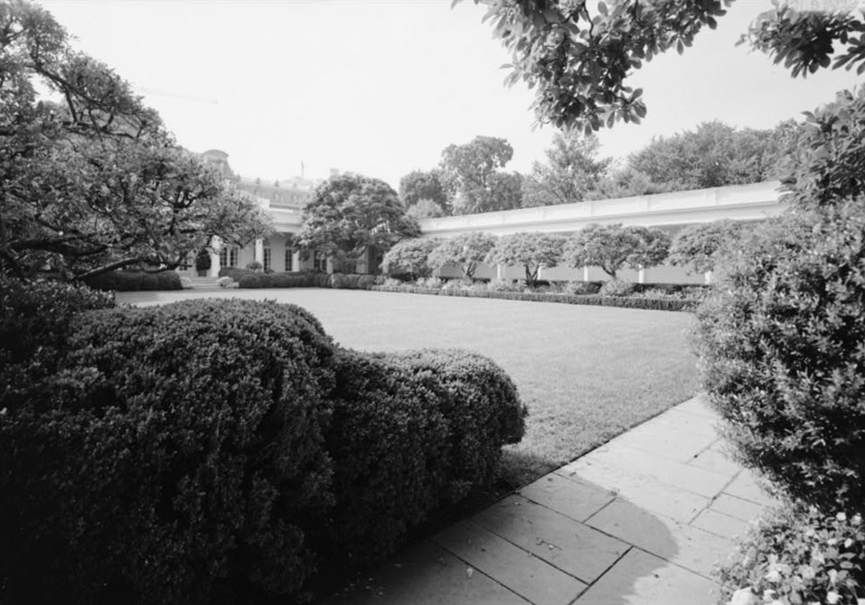 171. Rose Garden; View looking NW - White House, 1600 Pennsylvania Avenue, Northwest, Washington, District of Columbia, DC